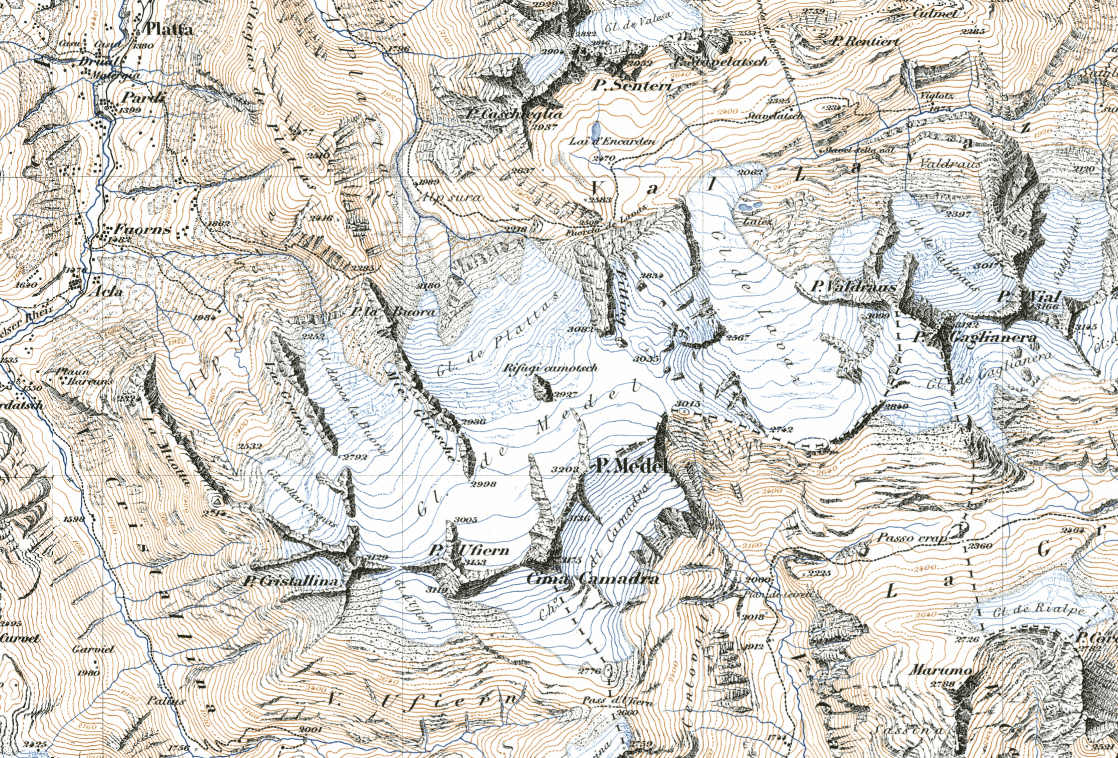 Piz Medel on the Siegfriekarte (1:50000)